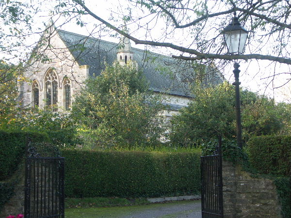 All Saints' parish church, All Saints Road, Woodside, Lymington, Hampshire